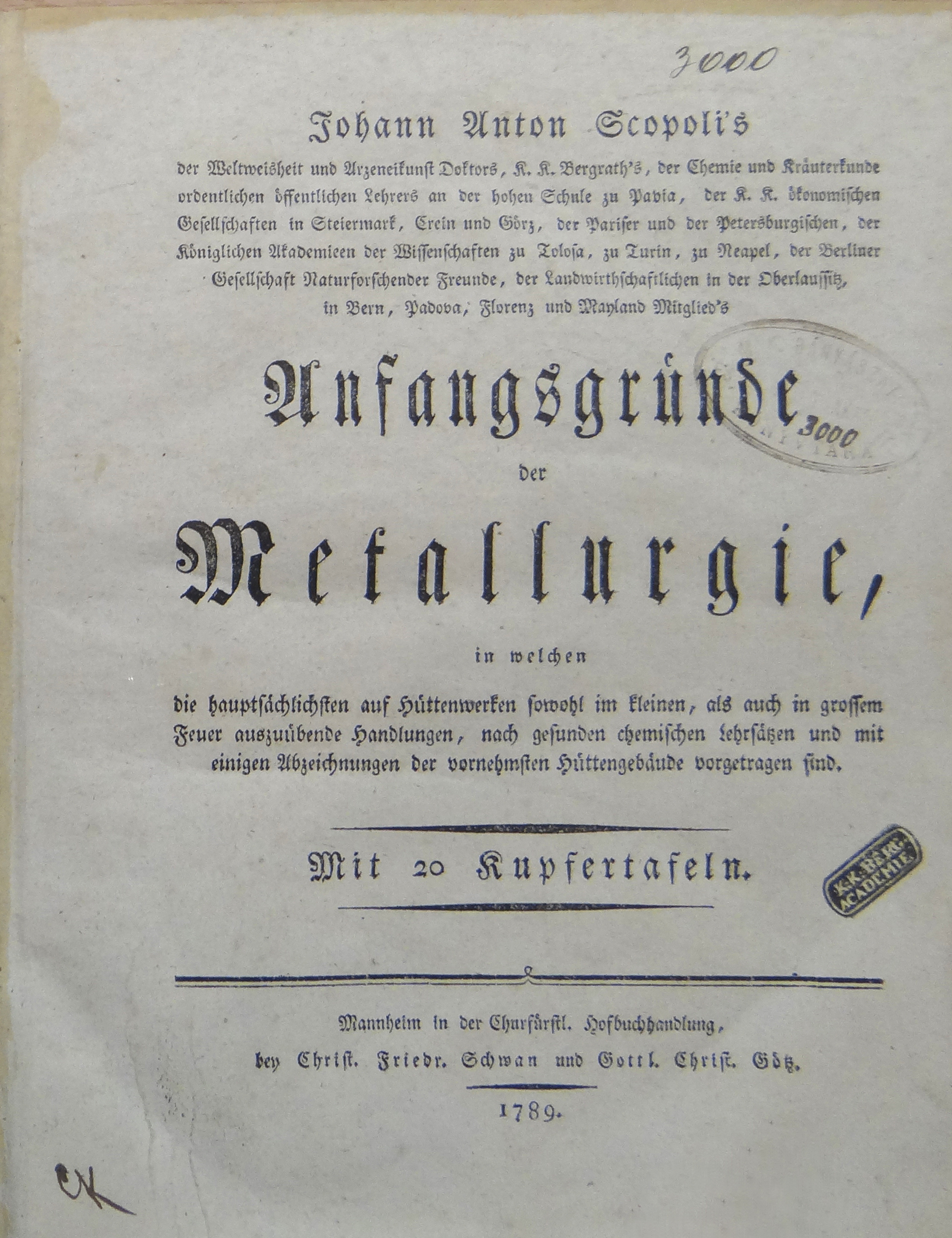 Giovanni Antonio Scopoli: Anfangsgründe der Metallurgie 1789 (Selmec Museum Library)